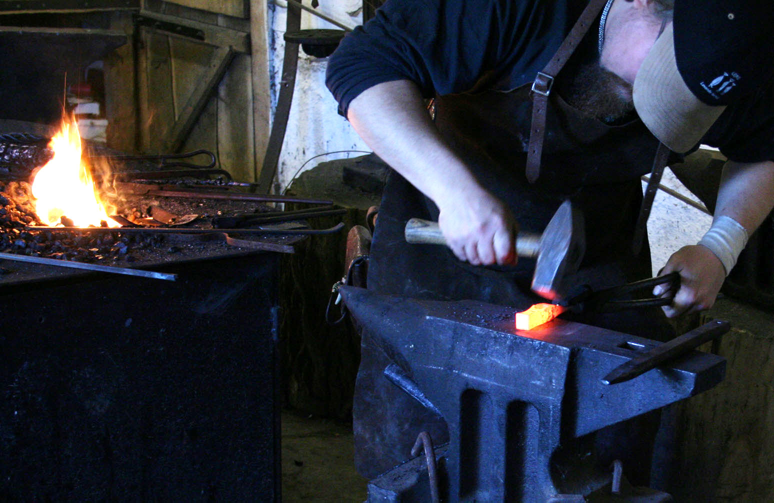 Forge in Sagnlandet Lejre (a reconstruction of an iron age village), Denmark